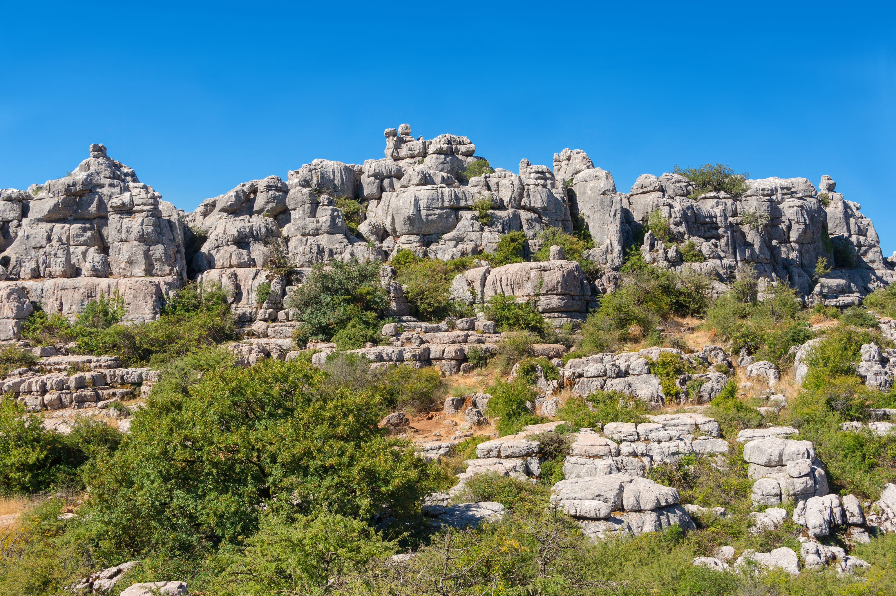 The natural phenomenon of the karst erosion in El Torcal de Antequera, Andalusia, Spain.